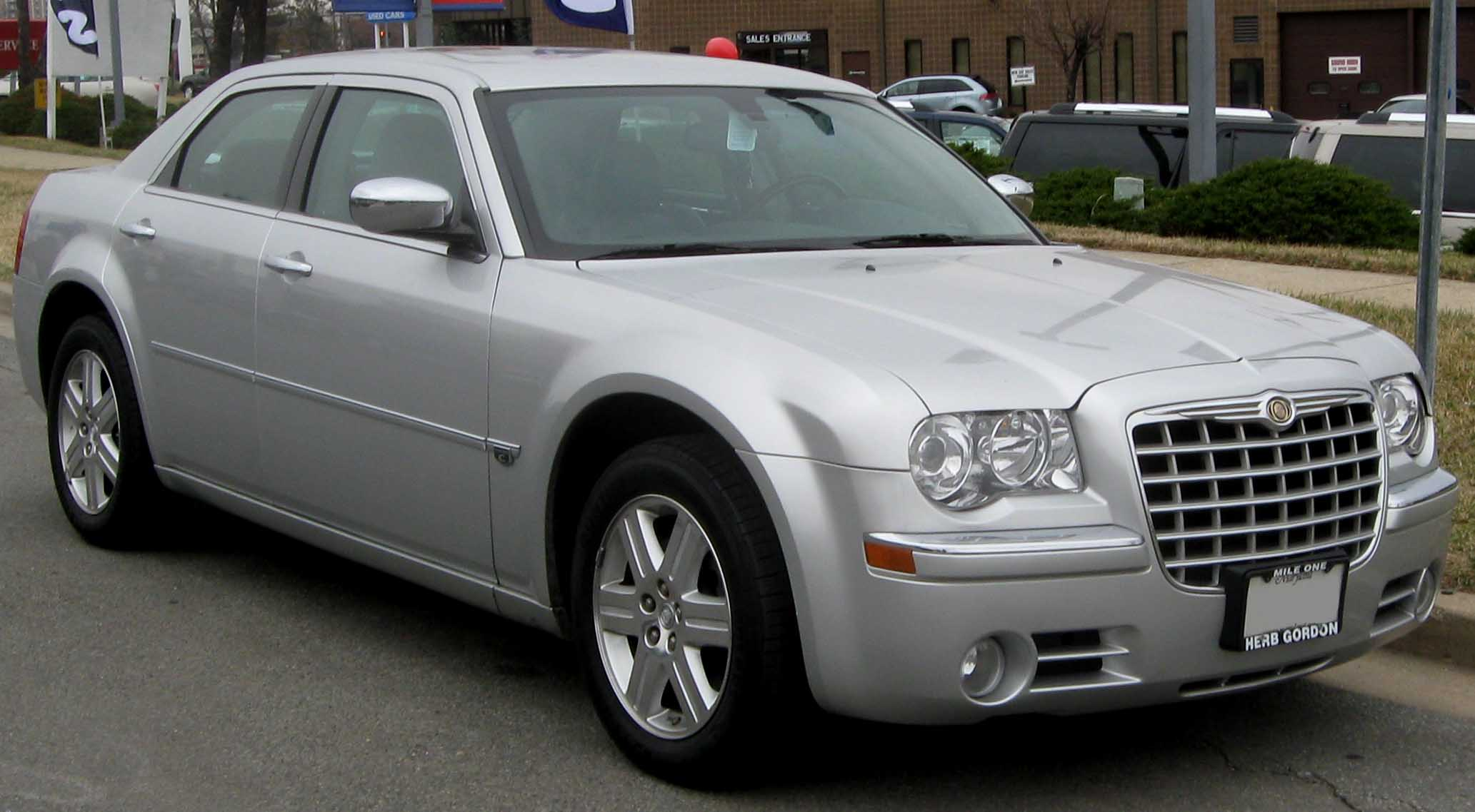 Chrysler 300C photographed in Silver Spring, Maryland, USA.